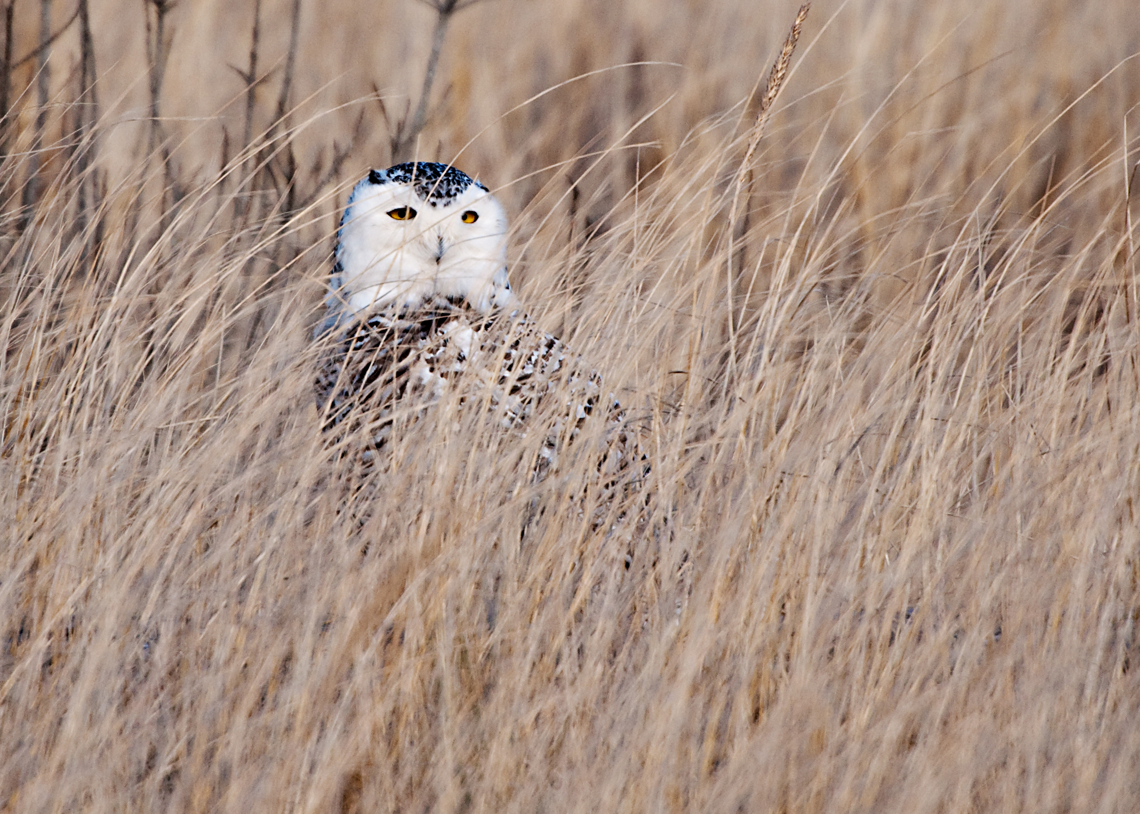 Bubo scandiacus, Damon Point, Ocean Shores, WA.